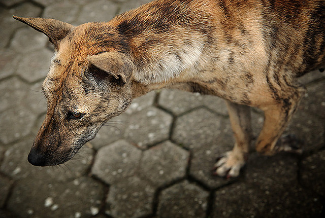 Brindle-coloured Bali Street Dog.